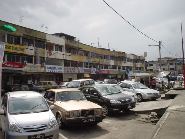 A view of Masai main street